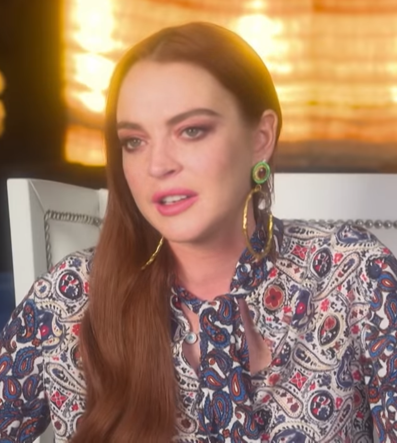 LiLo has swapped Hollywood for Greek party island Mykonos as she opens up her very own super club!